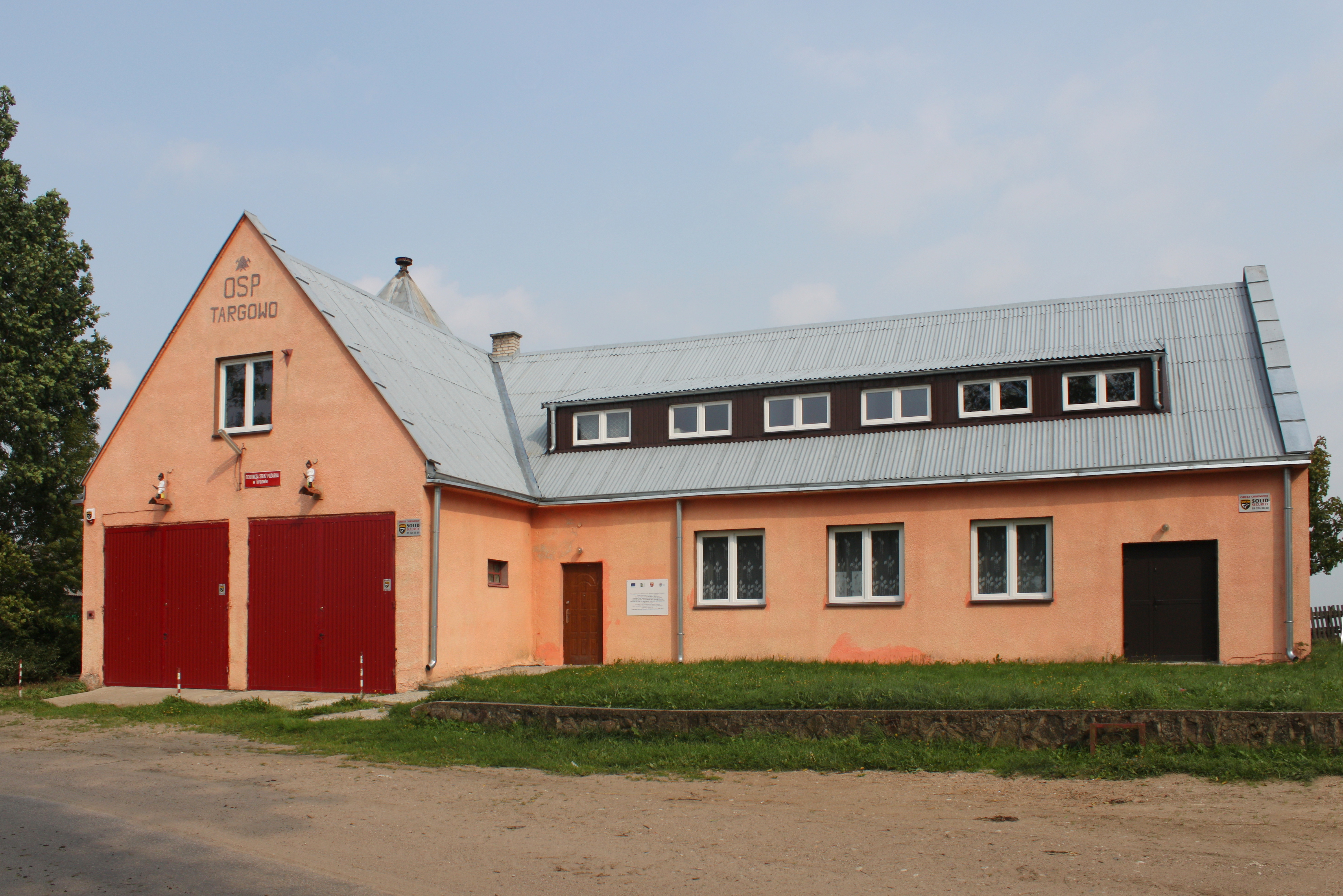 Fire station in Targowo.